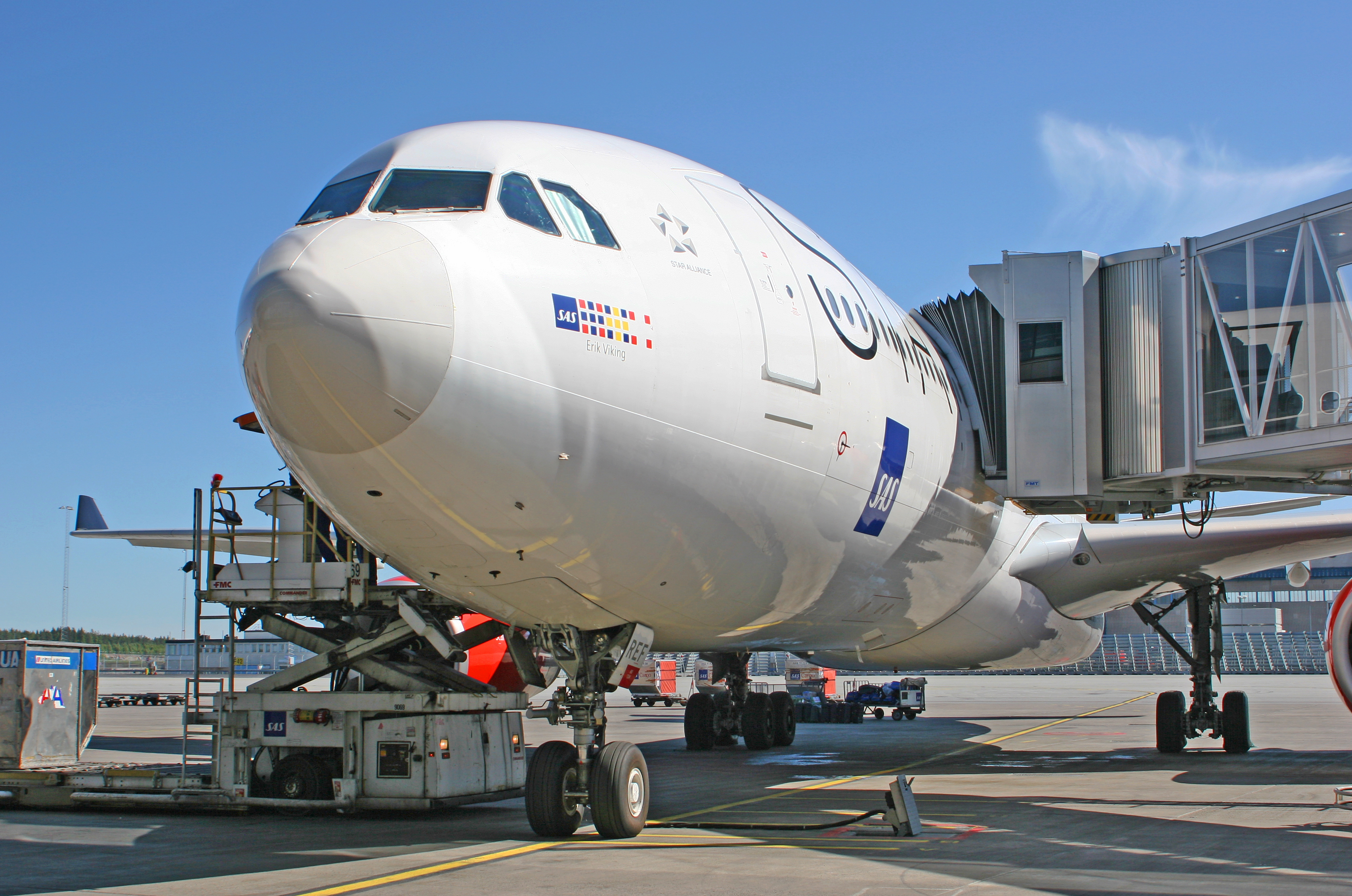 Scandinavian Airlines Airbus A330-300 getting prepared for an atlantic flight at Stockholm - Arlanda Airport, Sweden